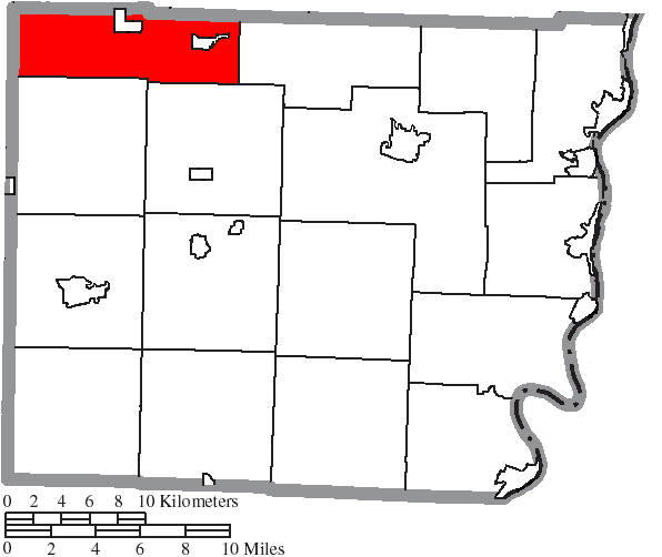 Map of the municipal and township boundaries of Belmont County, Ohio, United States, as of the 2000 census, with the location of Flushing Township highlighted. Township borders are shown only in unincorporated areas in order to differentiate incorporated and unincorporated areas more clearly.